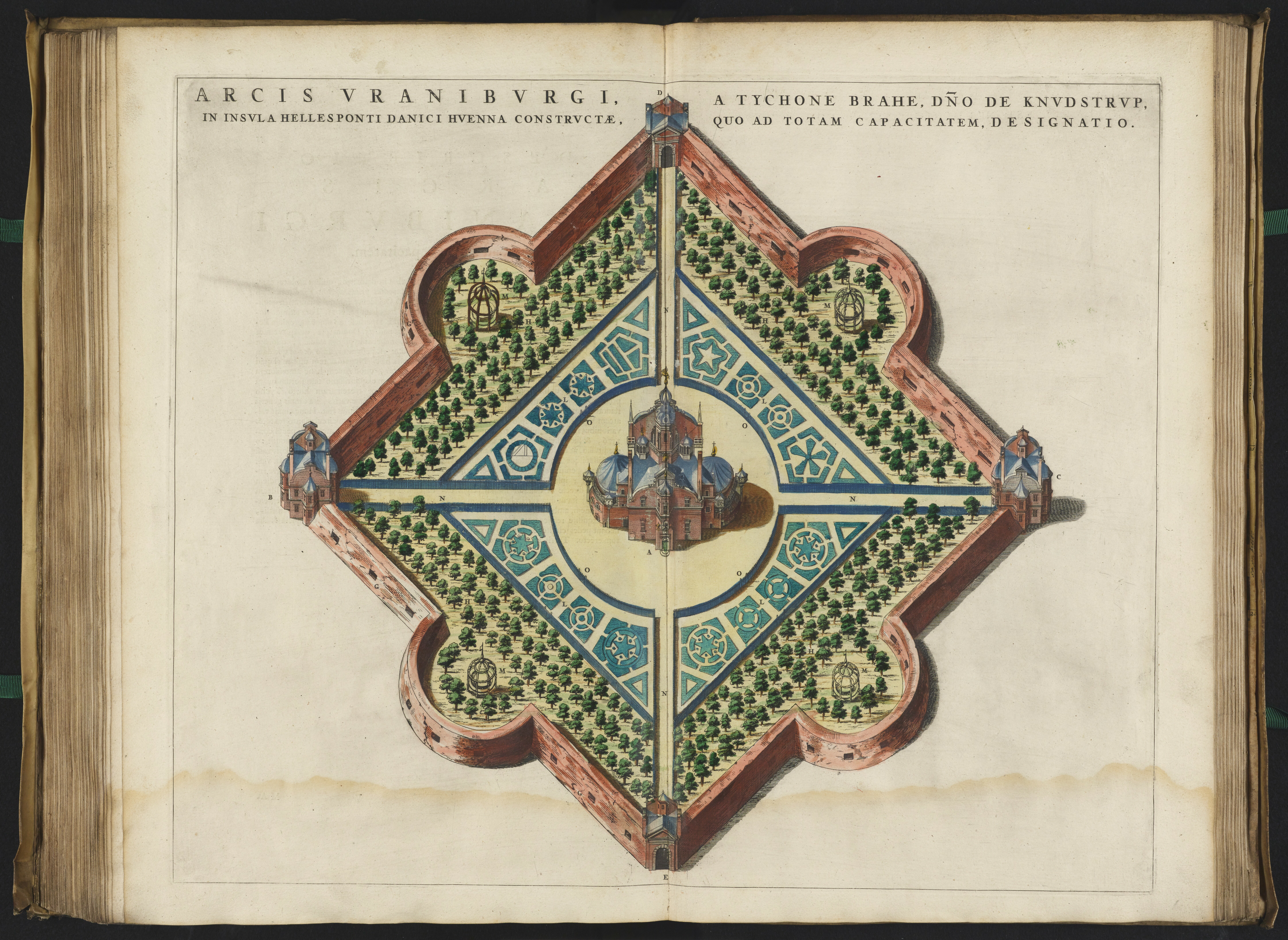 A hand-colored copper-plate engraving of Tycho Brahe's Uraniborg palace-observatory from Joan Blaeu's Atlas Maior, 1662-5 Volume 1, based on a woodcut published in Brahe's own 1598 book Astronomiæ instauratæ mechanica. This is his plan of the gardens, with the main building in the centre and servants' quarters, a printing studio, and other buildings just inside the outer walls. Note that Tycho's design was influenced by buildings he had seen in Venice, and was also constructed in a highly geometrical form. The castle and its ground were perfectly oriented in the points of the compass. For a poorer quality scan see [1]. For a medium resolution scan with more details see File:Uraniborgskiss 45.jpg.